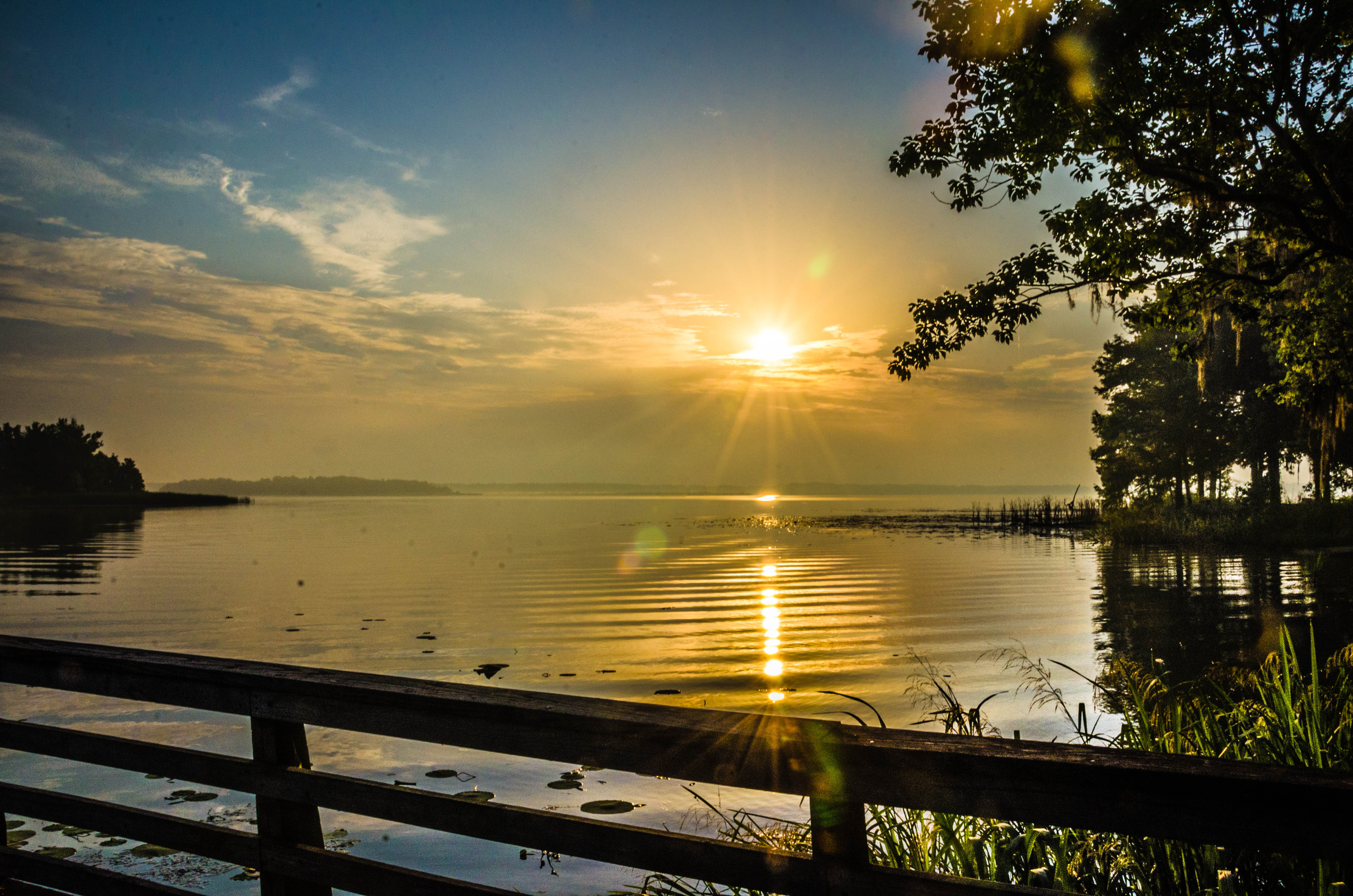 This image is of a sunrise at Three Rivers State Park in Florida.